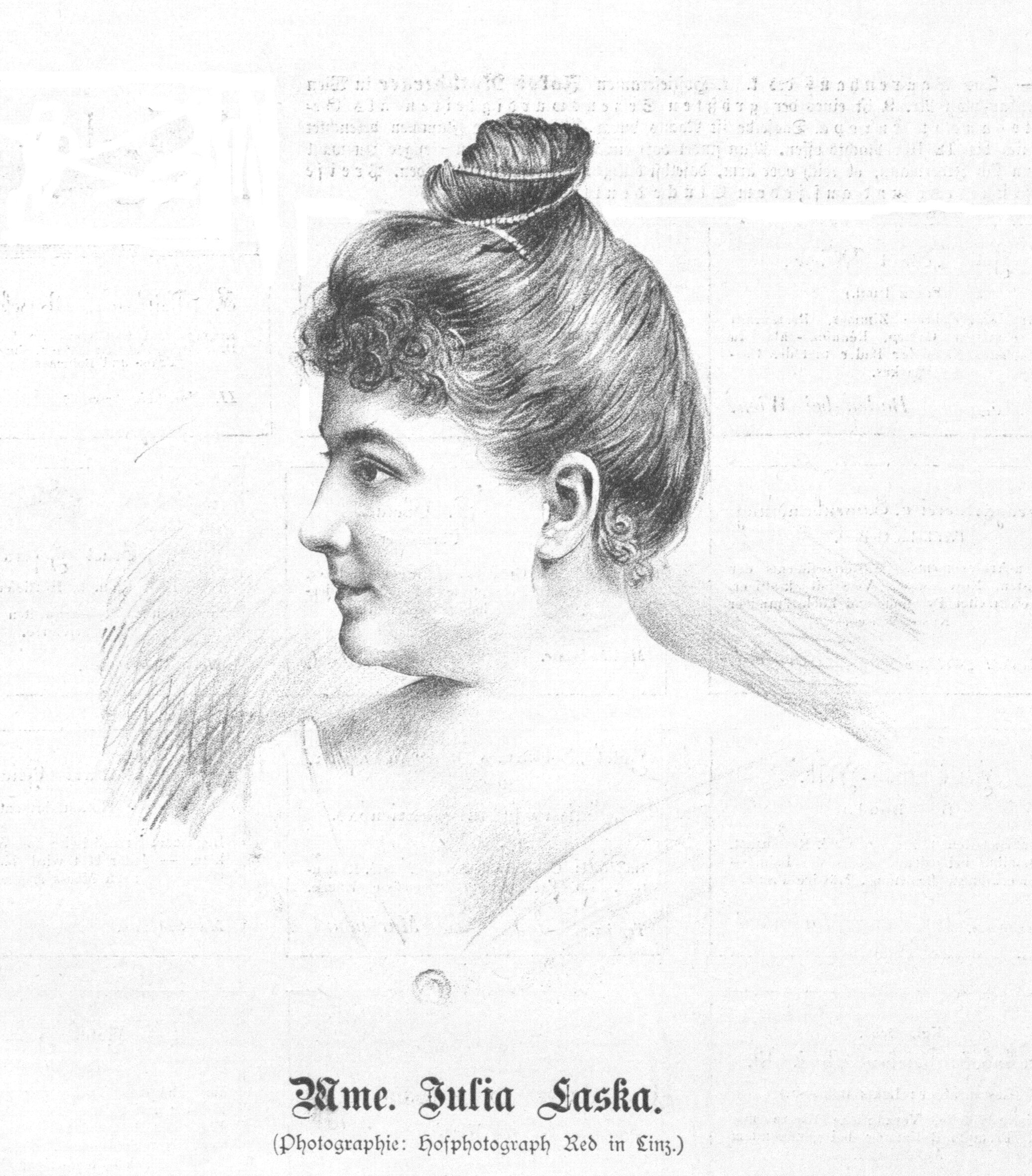 Portrait of Julie Laska, Austrian opera singer of the late 19th century.